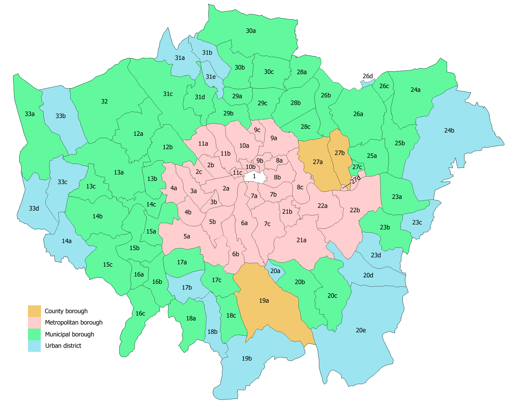 Greater London composite parts